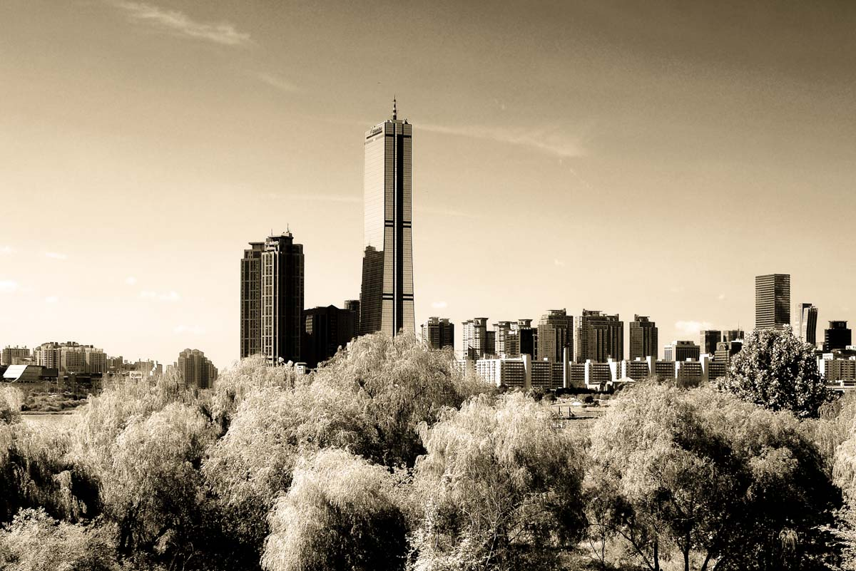 Yeoido, Seoul from across the Han